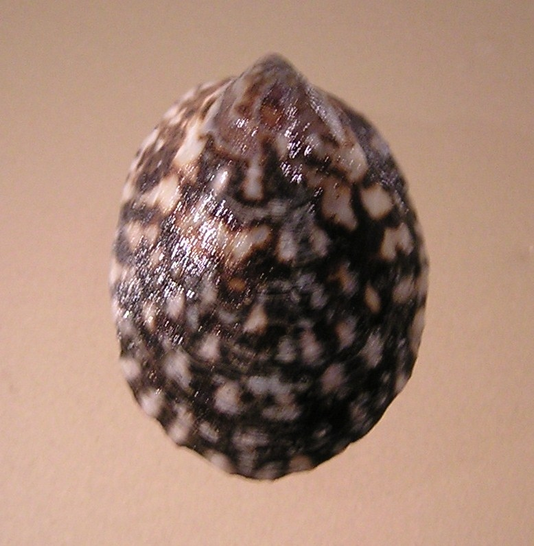 Cellana strigilis (Hombron & Jacquinot, 1841), a limpet from the family Nacellidae; New Zealand